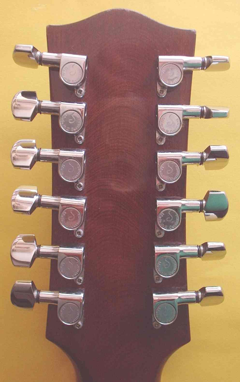 Schaller machine heads factory-fitted as an aftermarket upgrade by Maton guitars to my much-loved CW80/12. Yes, they aren't quite straight but they work fine! This is an original photograph by Andrew Alder, taken on 9 March 2006.